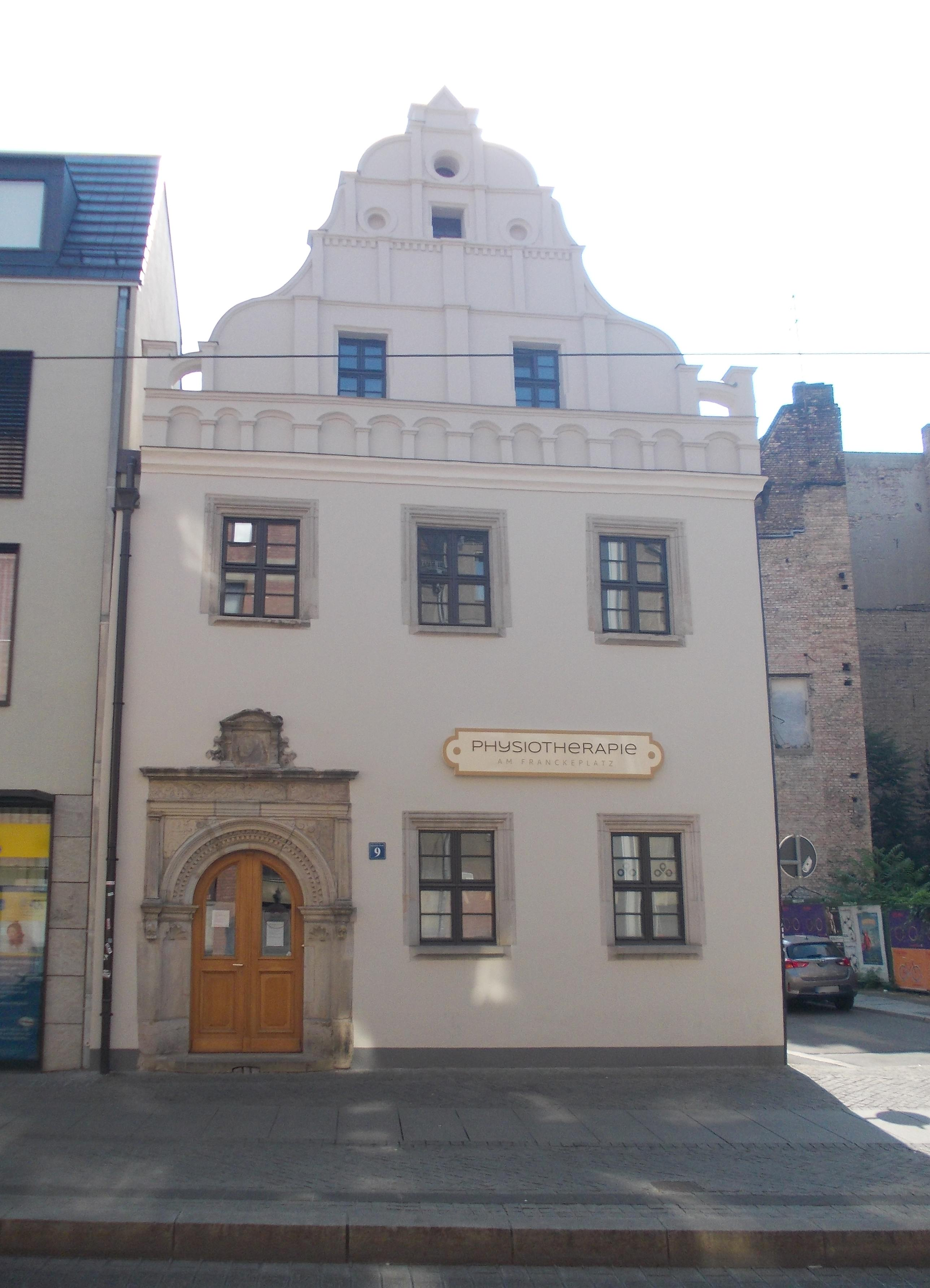 No. 9, Rannische Straße in halle/Saale (Saxony-Anhalt)